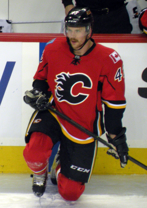 Calgary Flames defenceman Chris Breen prior to a National Hockey League game in Calgary.